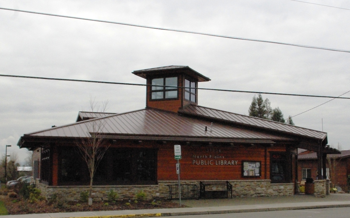 Library in North Plains, Oregon, USA